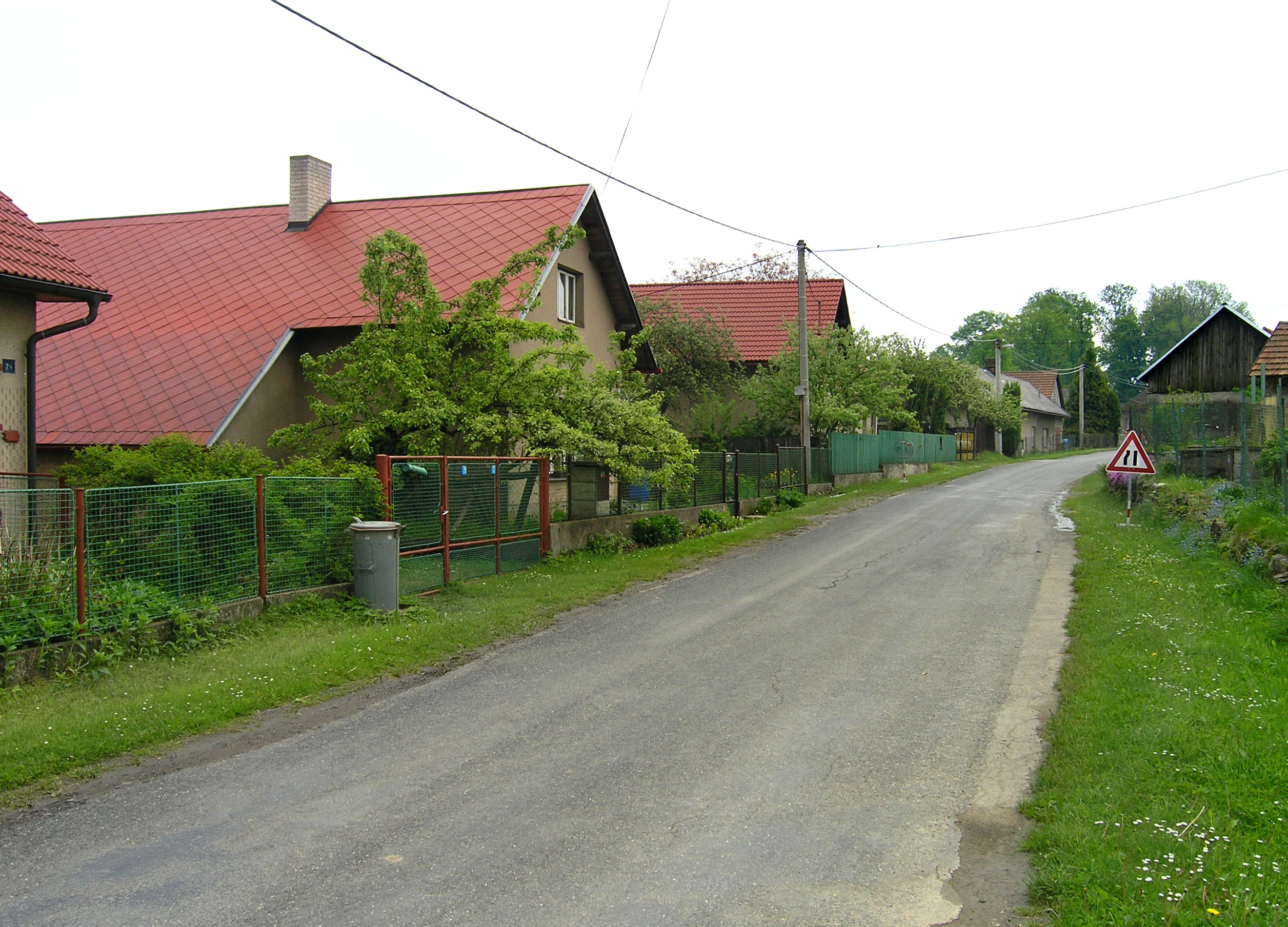 North part of Nejepín village, Czech Republic